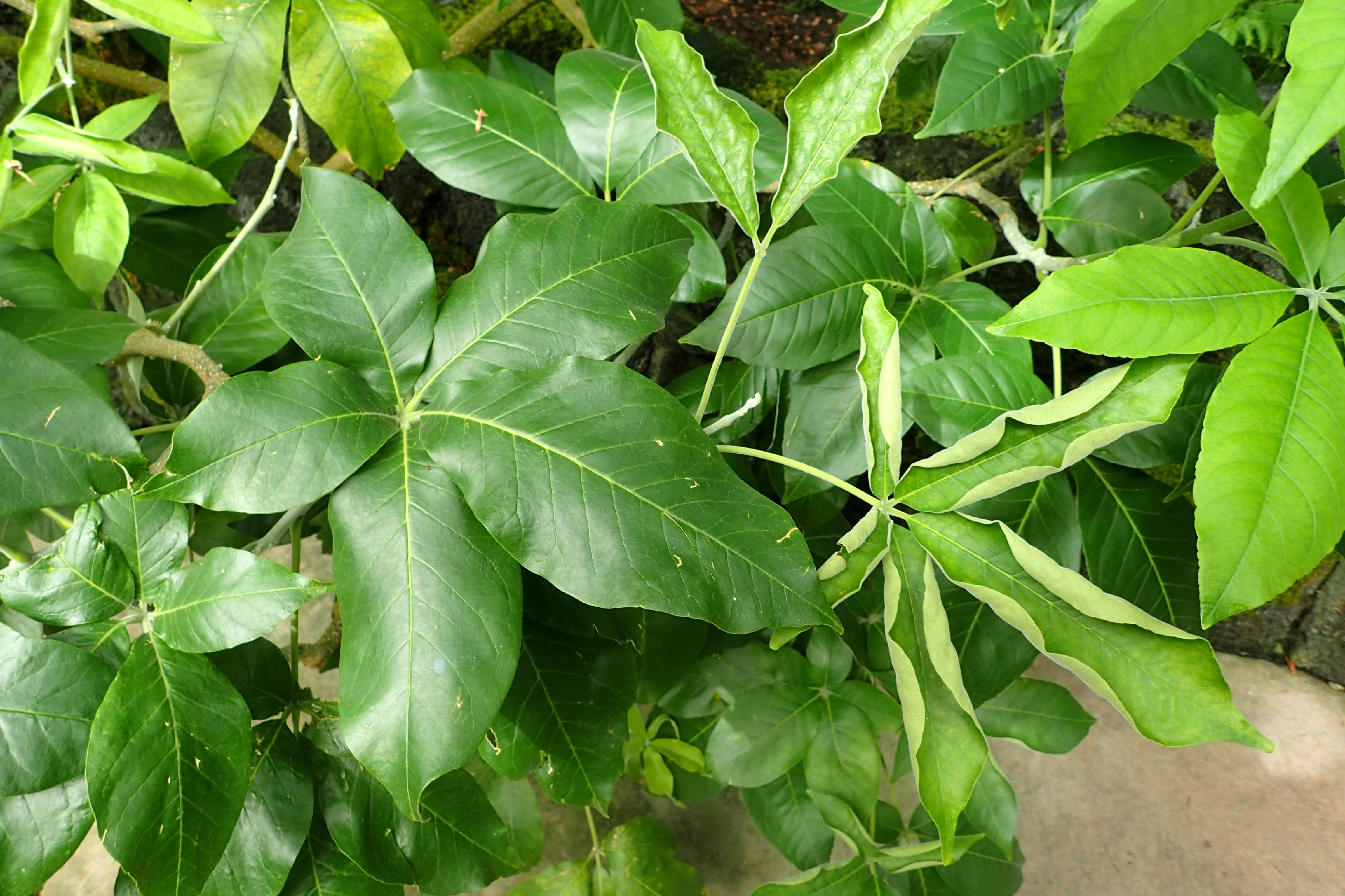 Casimiroa tetrameria at the New York Botanical Garden